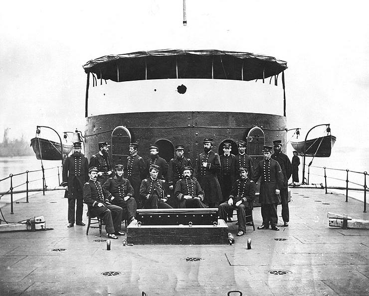 A photograph of the officers of the USS Mahopac one, probably on the James River in the spring of 1865. Note gun port covers hung on the monitor's turret, apparent shot hole in the bullet-proof iron screen at the turret top, and bell on the turret side. Original found at